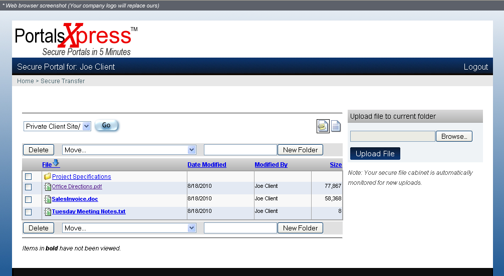 Service logo for PortalsXpress